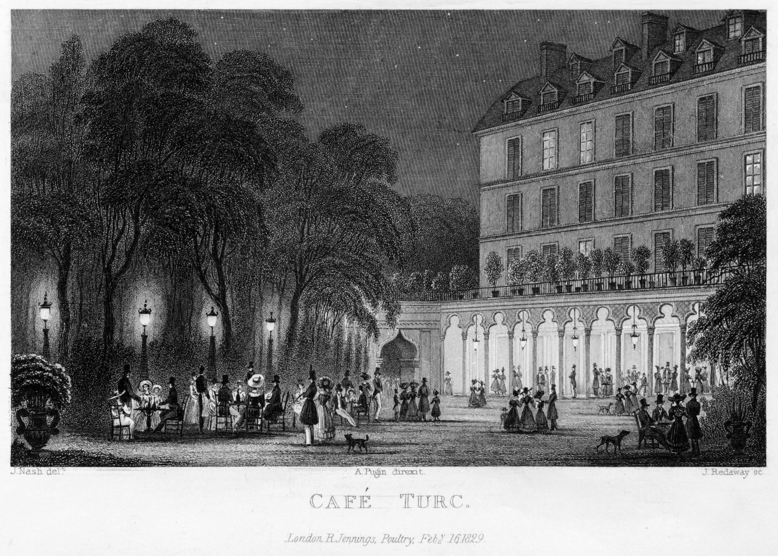 The Café Turc, designed to adhere to a "Turkish style", was opened in 1780 on the boulevard du Temple, and consisted of a large garden featuring illuminated spectacles in the evening. Parisian cafés were popular gathering places throughout the 19th century. In 1831, when this engraving was made, there were an estimated 787 cafés in the city that attracted Parisians and tourists alike. However, the Café Turc's popularity diminished around this time, at the beginning of Louis-Philippe's reign. It eventually lost its novelty and became just another Parisian restaurant.